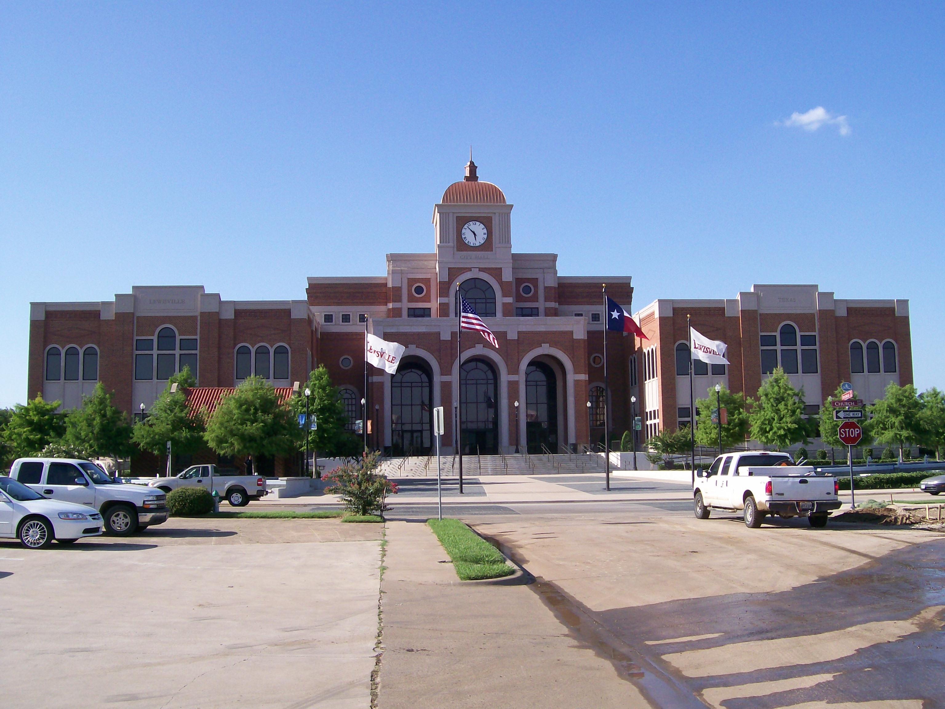 City of Lewisville, Texas city hall, front view, from Poydras Street at Church Street.